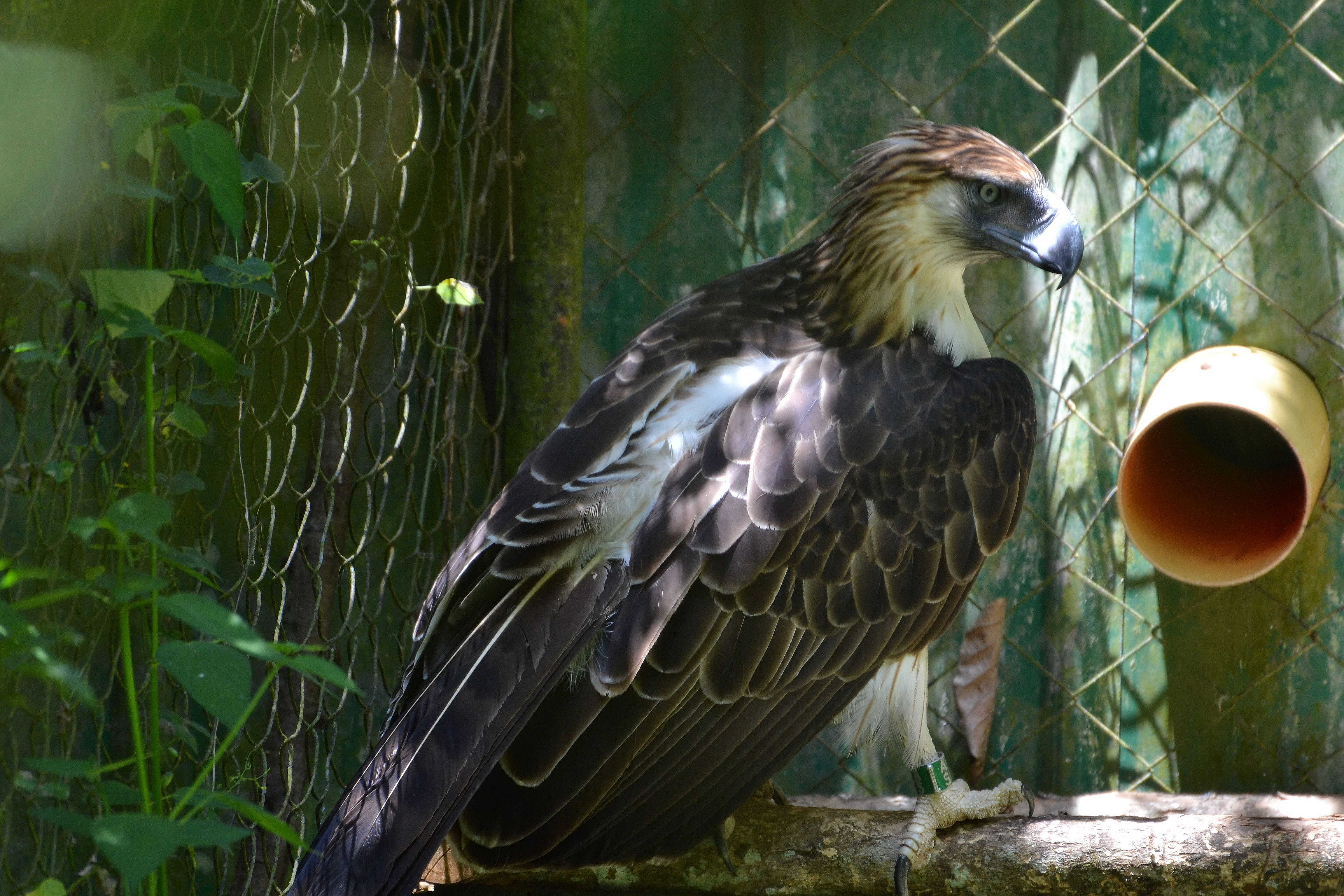 Philippine eagle (Pithecophaga jefferyi)